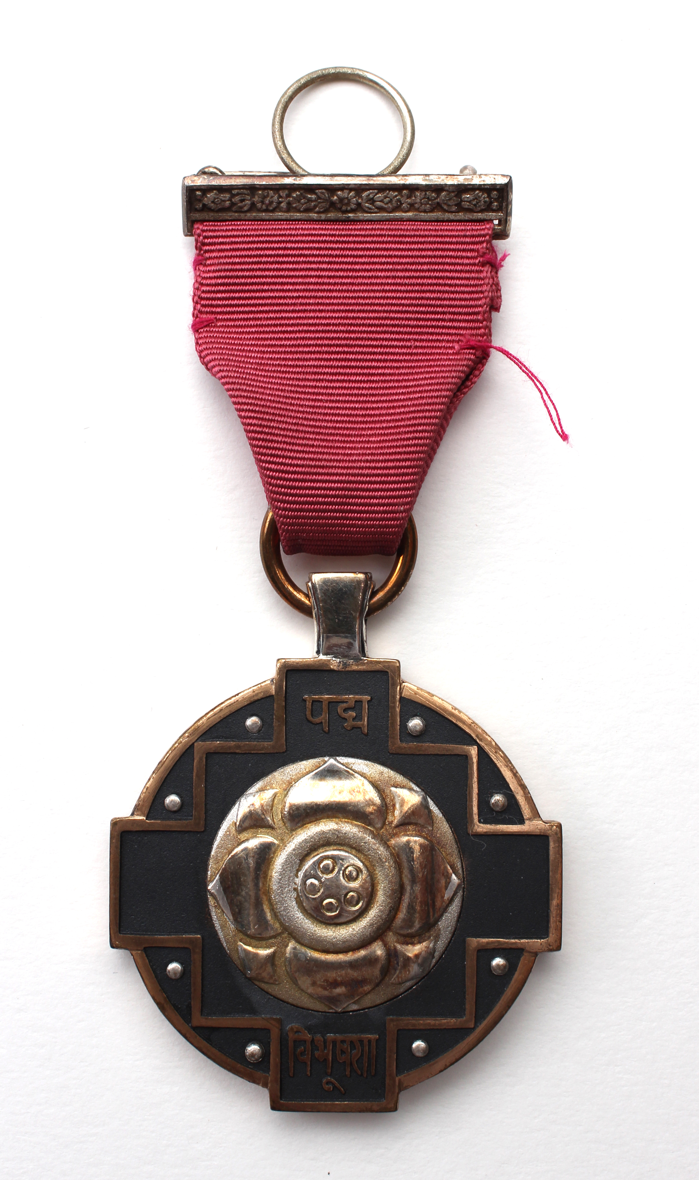 Republic of India- The Padma Vibhushan - Decoration of the Lotus Breast badge, heavy metal cross in gilt and silver with a frosted dark green finish. Associated material is a paper scroll (certificate) in a decorated cardboard tube, stored in a brown cardboard box.